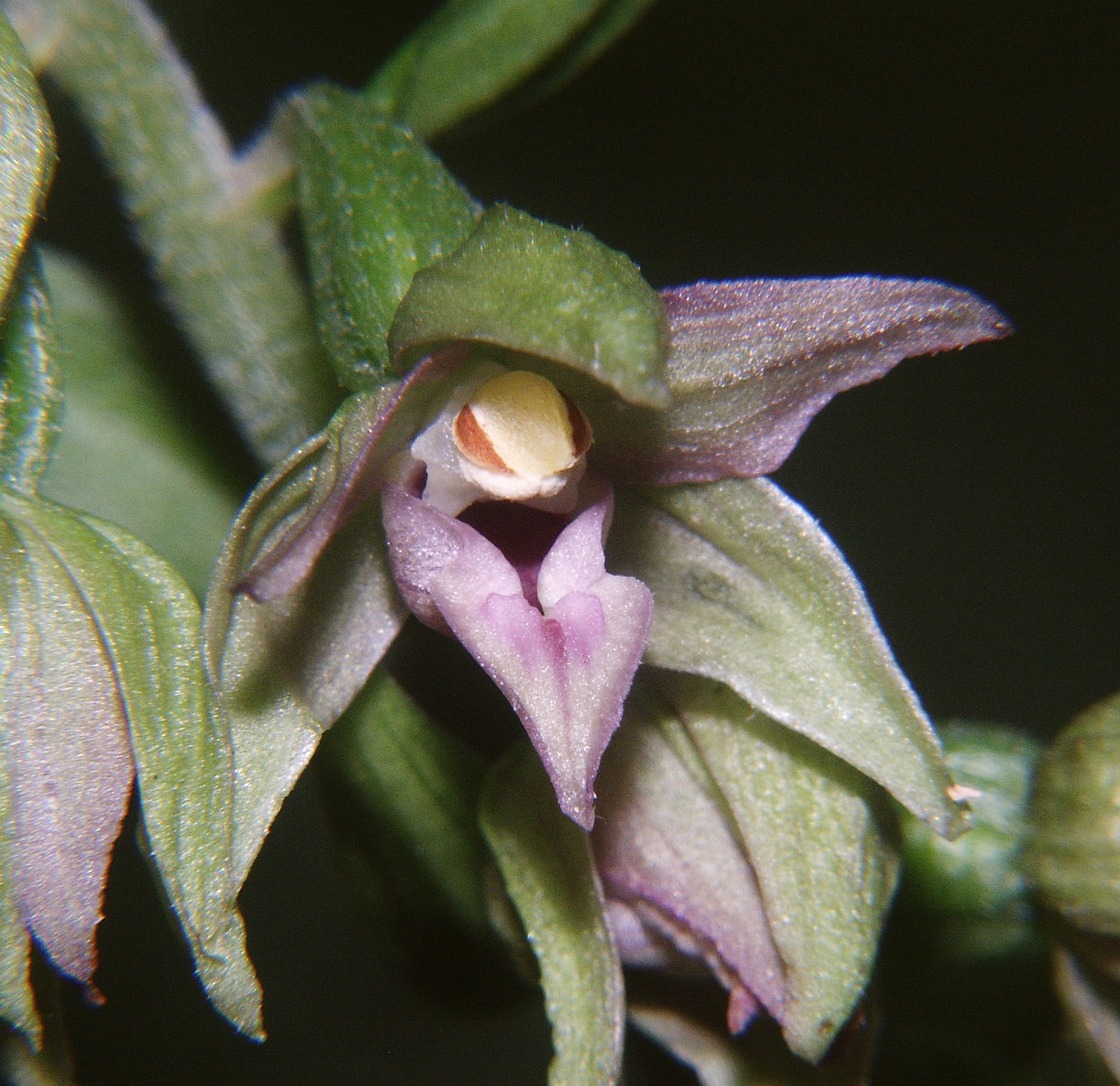 Epipactlis leptochila, Hohenlohe, Germany